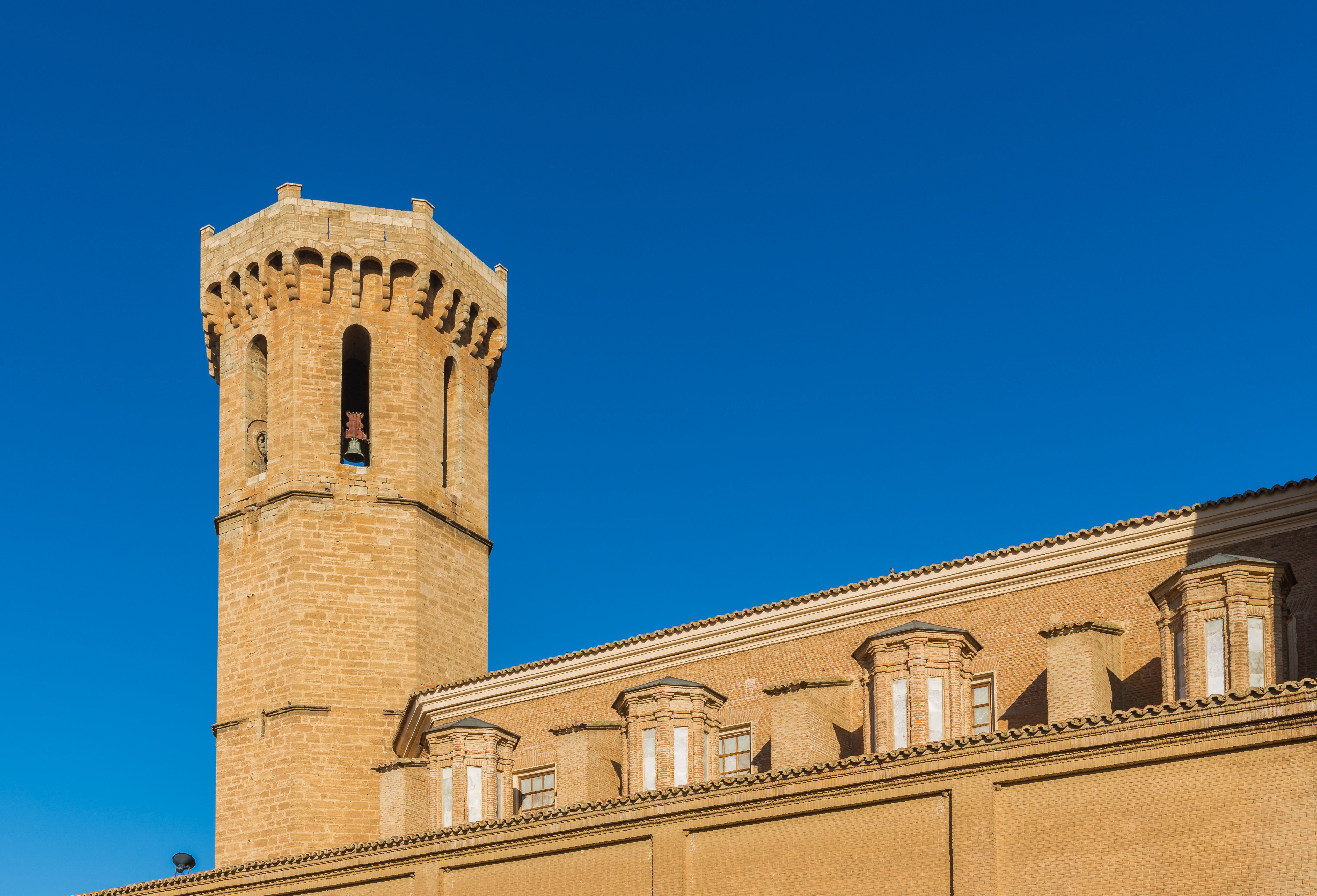 Church of the Assumption, Cariñena, Spain